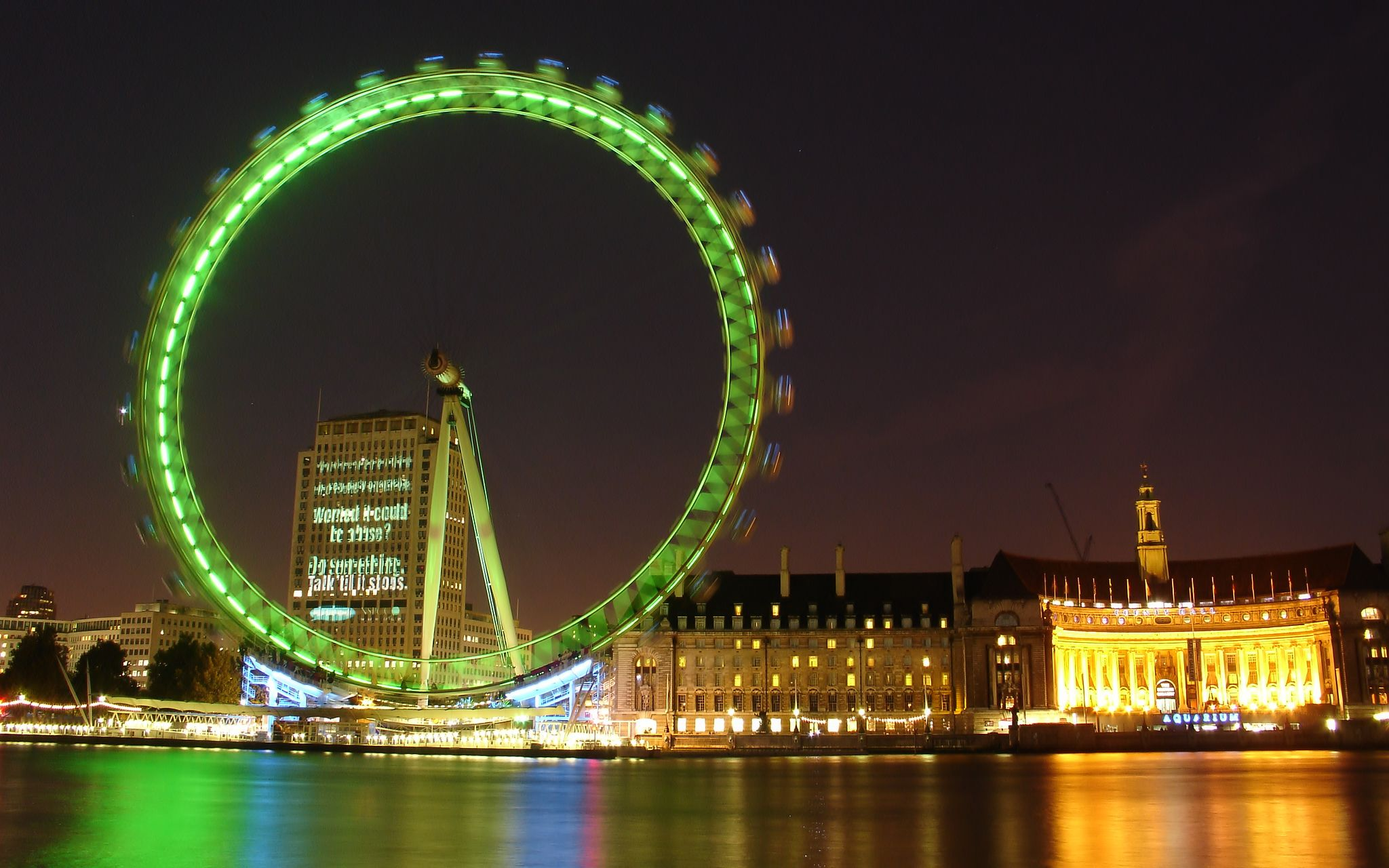 I shot this picture of London Eye one night in London, with slow shutter speed I love the way it came spinning... what do you say?